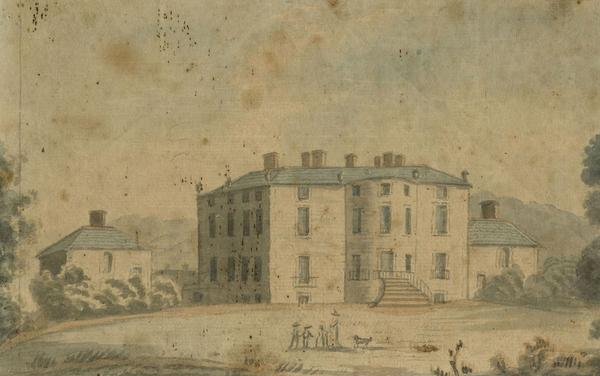 Munches House, Dalbeattie, Kirkcudbrightshire in 1797.